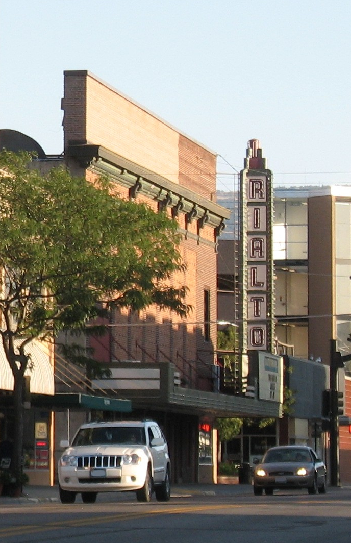 The Rialto Theater in Casper, Wyoming, on the northeast corner of Second and Center Streets in the original township. The structure, built in 1921 as the New Lyric Theater, is listed on the National Register of Historic Places.